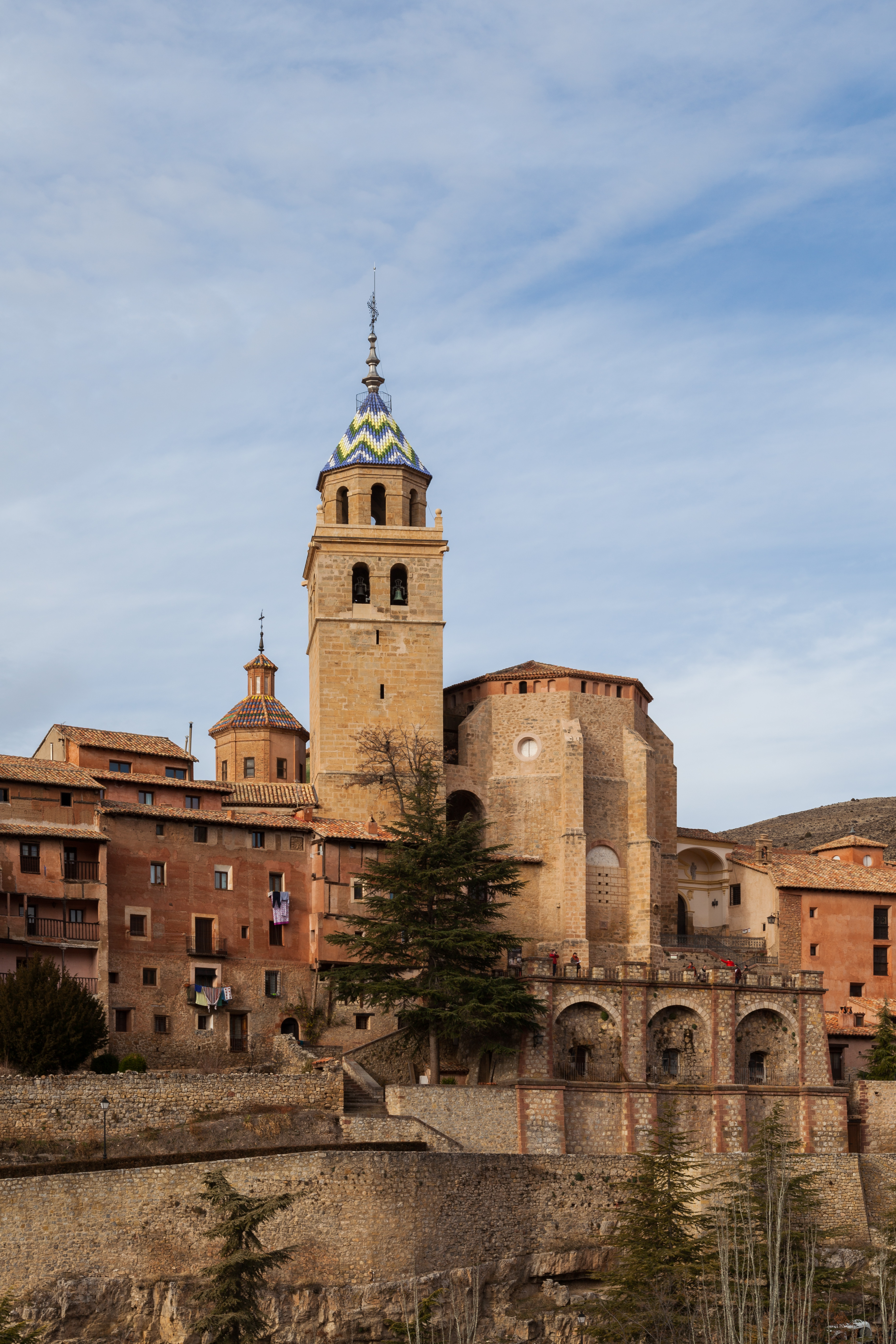 Albarracín Cathedral, Teruel, Spain